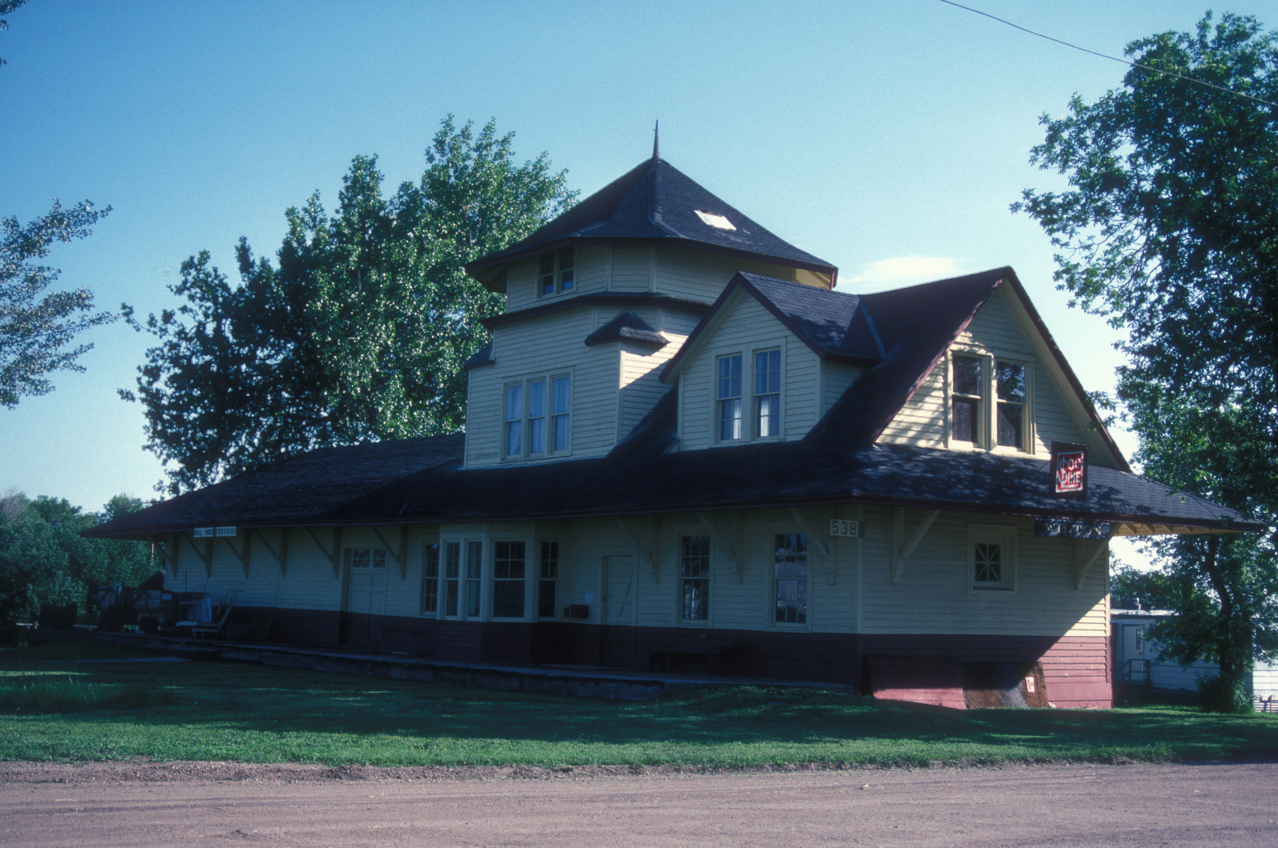 BUILT IN 1900; DISTINGUISHED FOR ITS PAGODA-LIKE TOWER